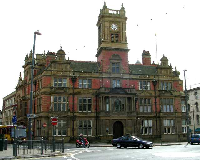 Town Hall - Talbot Square